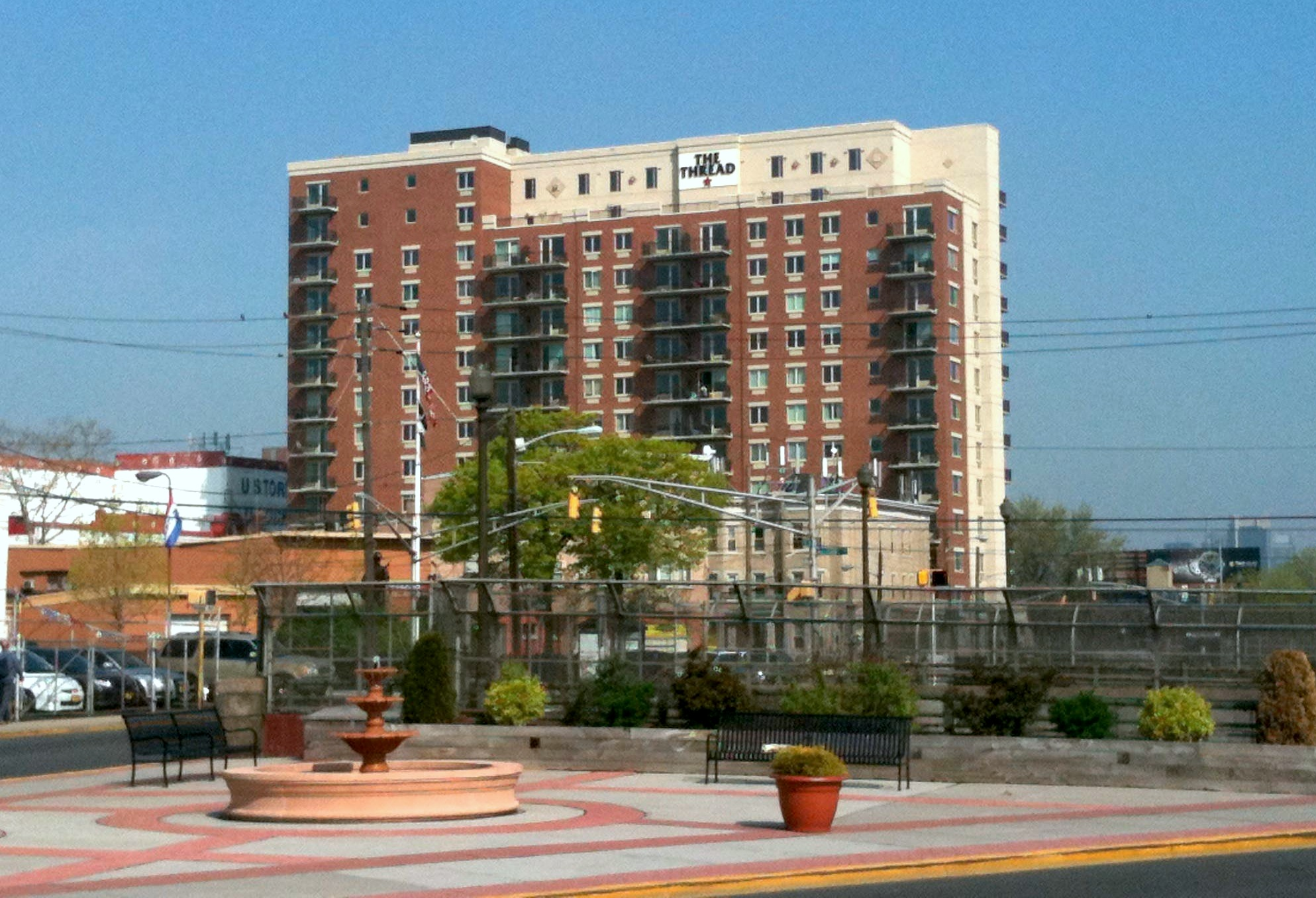 The Thread, the first high-rise condominium tower in Union City, New Jersey. Photographed by Luigi Novi. This photo is not in the public domain. It may, however, be used, modified and published for any purpose, free of charge, only if an easily visible credit to the photographer is placed near the photo in each instance in which it is used. (See licensing information below.) Publication of this photo without this proper attribution constitutes copyright infringement. For more information on my photos, you can contact me here.